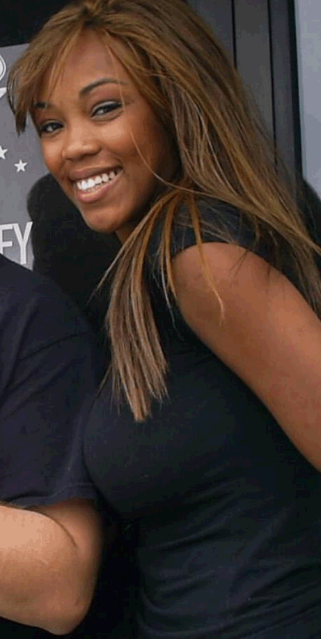 Victoria Crawford